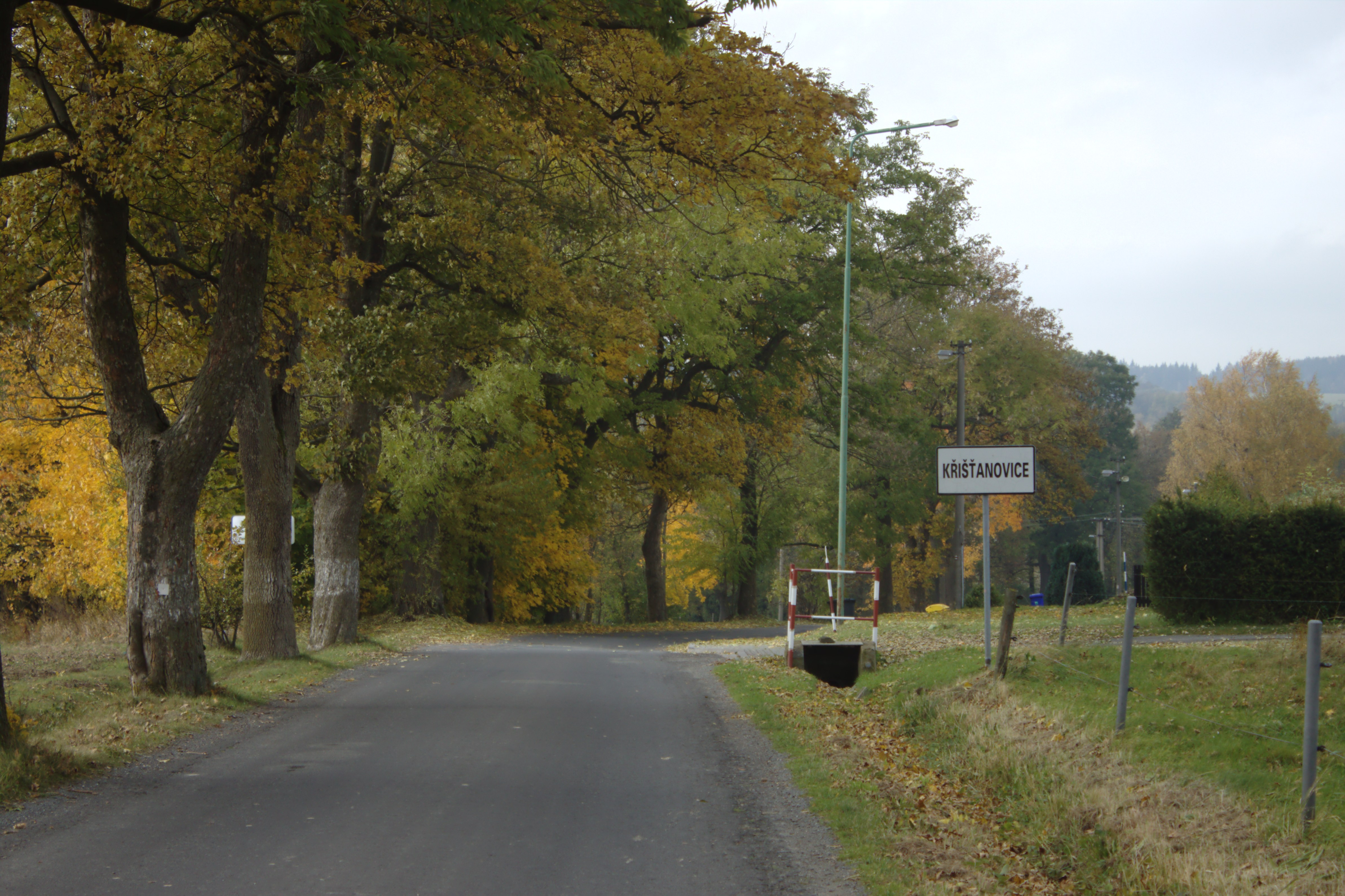 Southern limit of the town of Křišťanovice, Moravian-Silesian Region, CZ